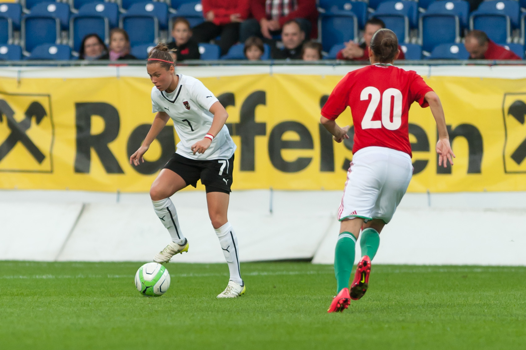 FIFA Women's World Cup 2015: Qualifying Round St. Pölten, 13.09.2014 Nicole Billa